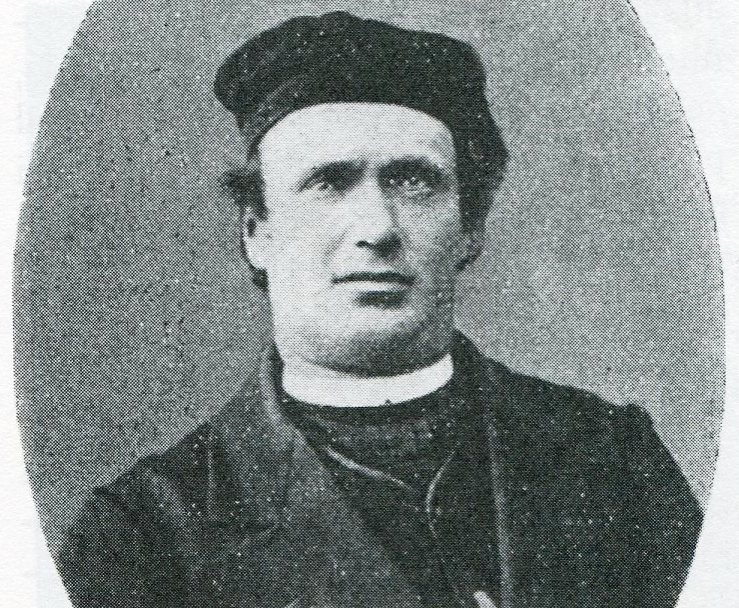 Don Pietro Follador